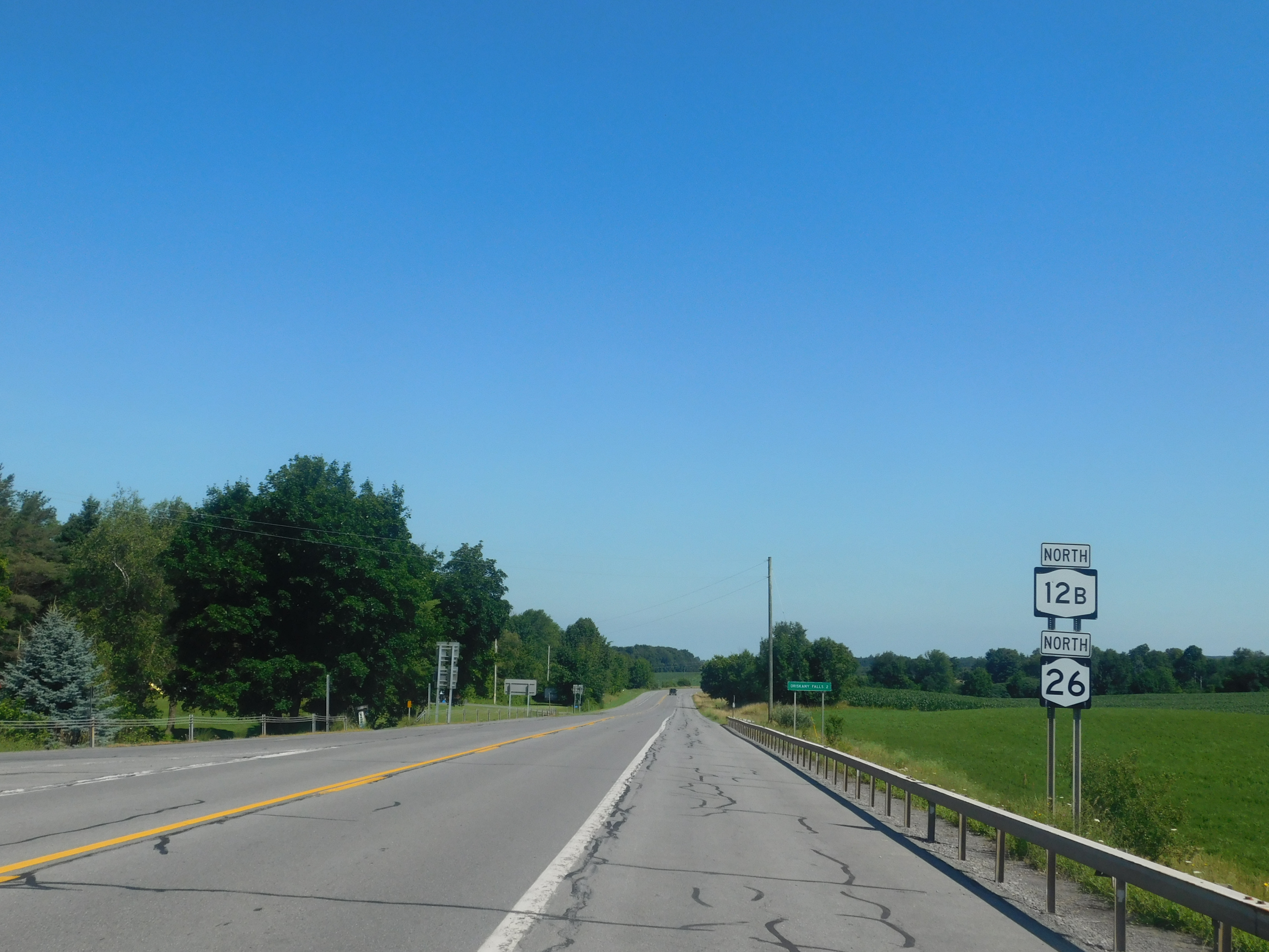 New York State Route 12B and New York State Route 26 northbound from U.S. Route 20 in Madison, New York.